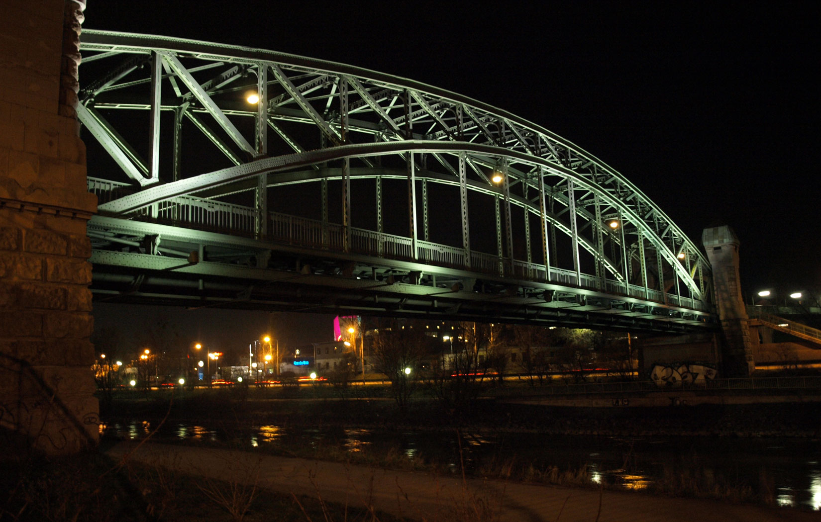 Döbingerbridge in Vienna, shot from the Brigittenau-side of the Donaukanal